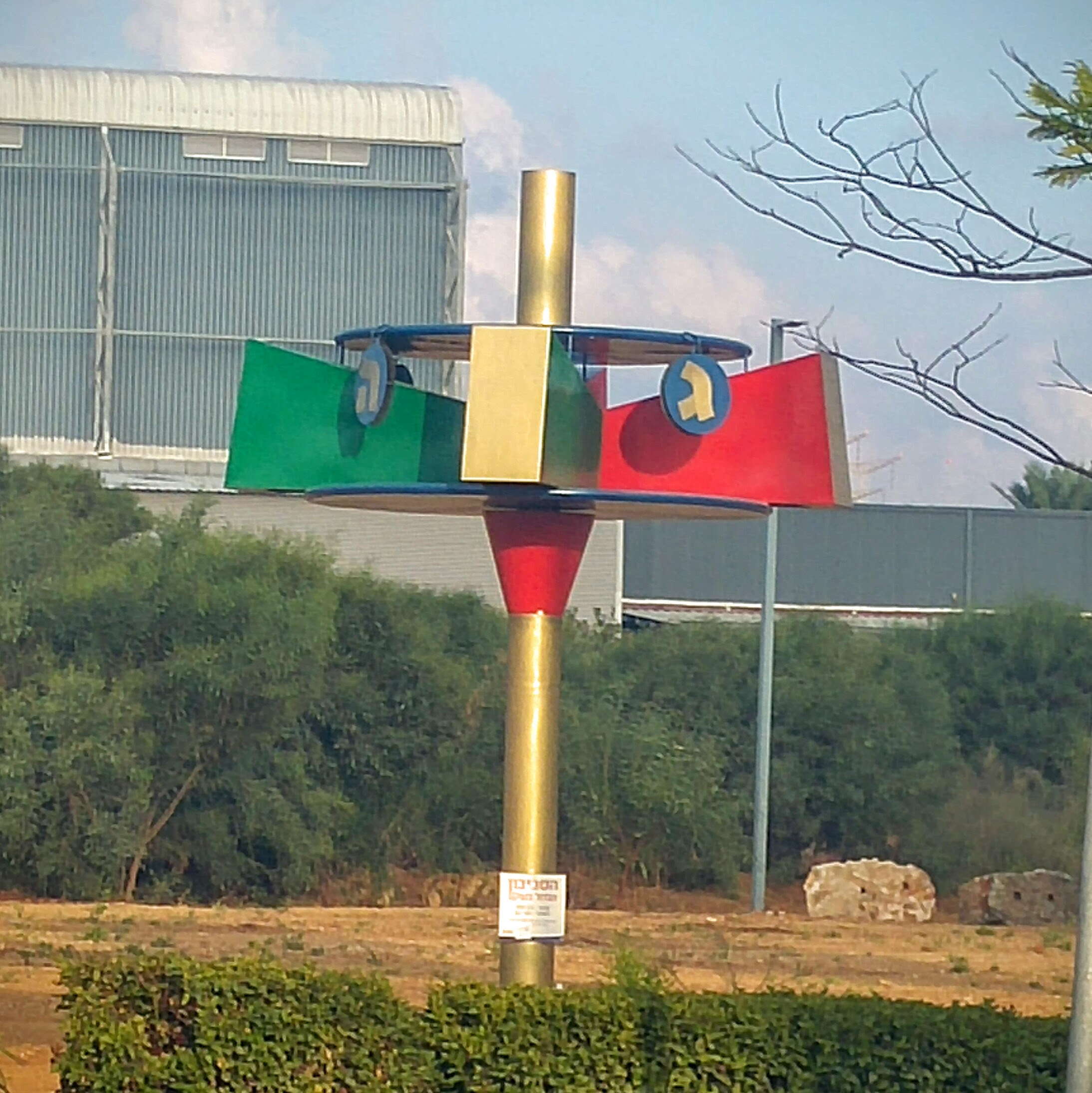 Entertainment